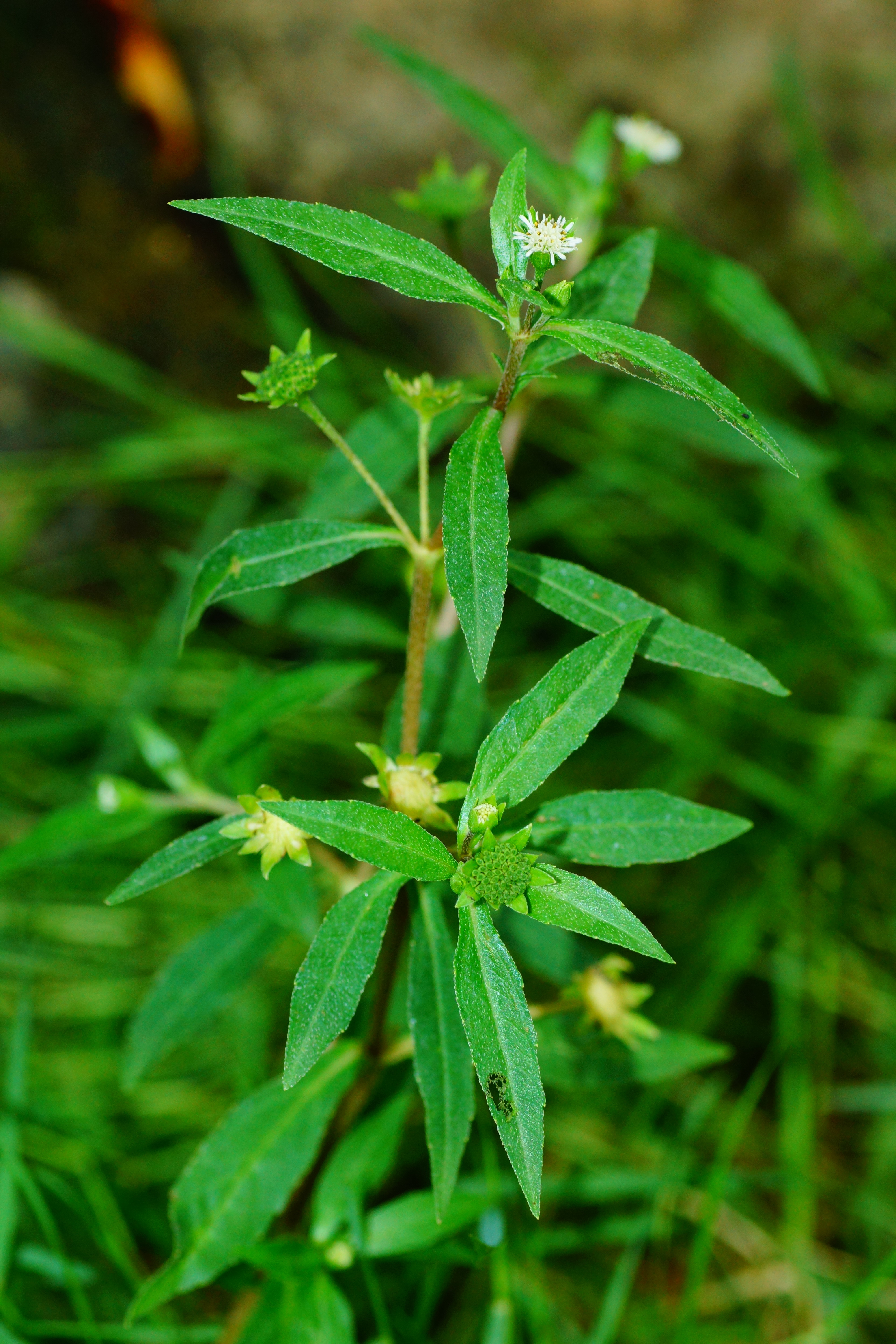 Eclipta prostrata